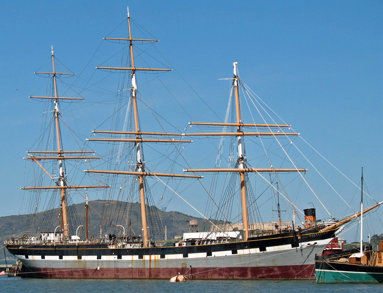 National Register of Historic Places in San Francisco, California. "Balclutha", San Francisco Maritime National Historic Park, San Francisco, California, USA. Photographed 2008-03-08 by Mike Hofmann from Aquatic Park beach. The "Balclutha" is a square-rigged sailing ship built in 1866.